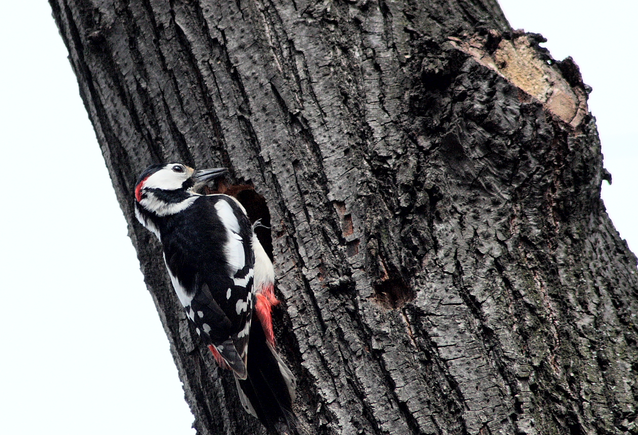 Great Spotted Woodpecker Dendrocopos major in Bucharest